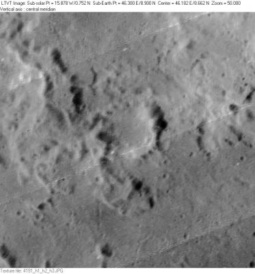 LO-IV-191H image. Watts is the small formation in the center.